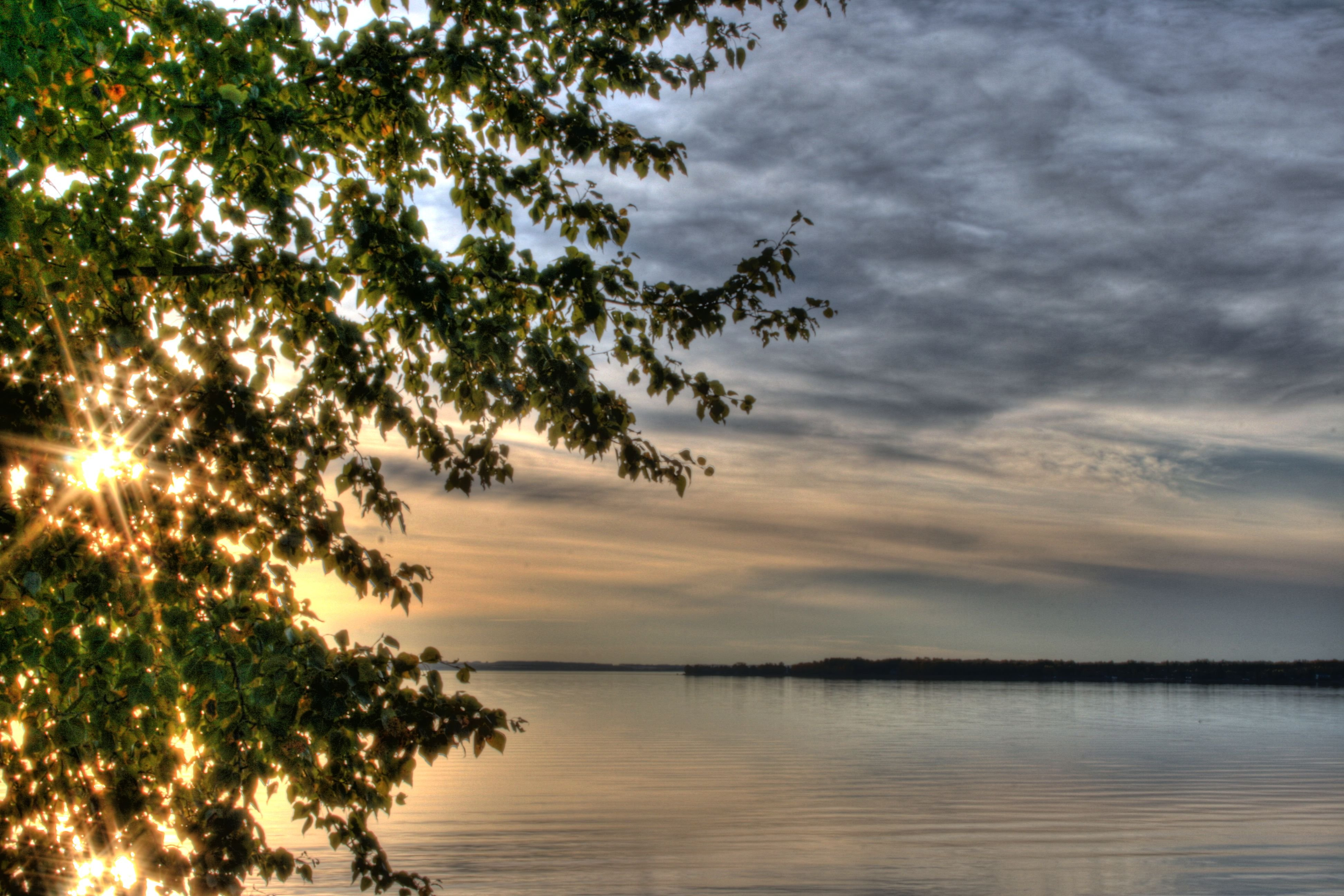 Pigeon Lake at Mulhurst Bay, Alberta, Canada.